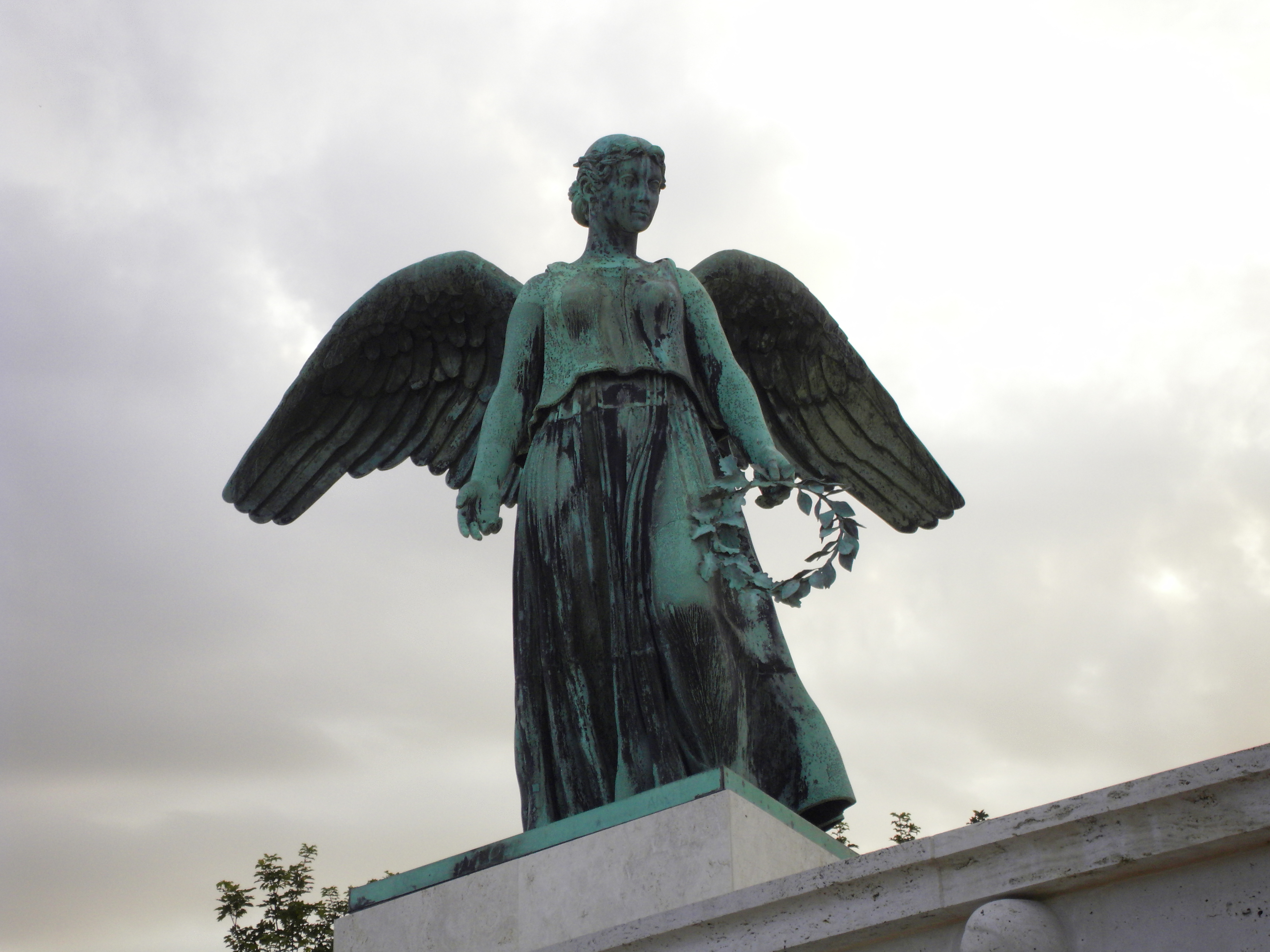 A big statue of an angel in Copenhagen, Denmark.